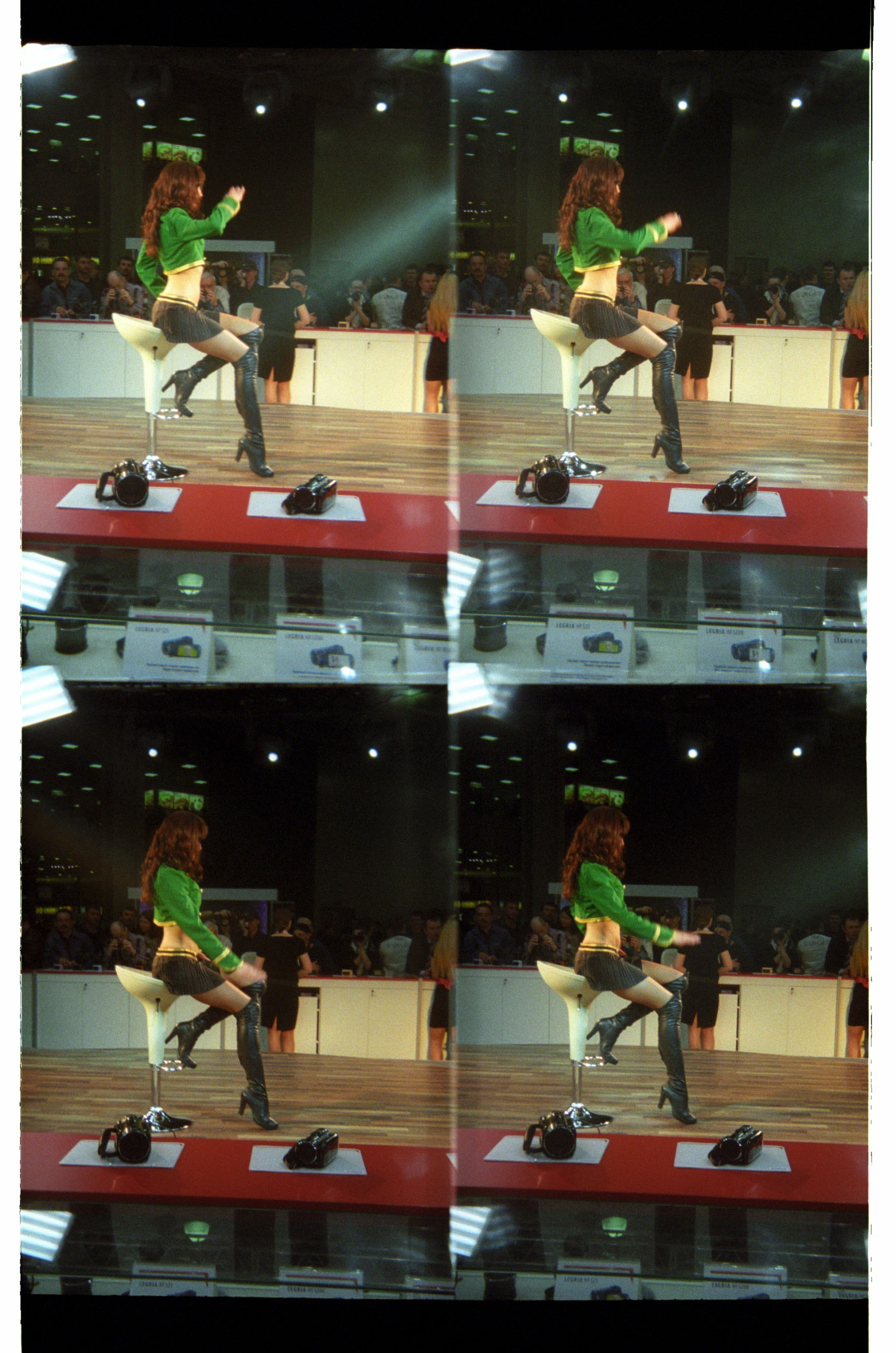 Girl on PhotoPhorum'2010 (Crocus, Msk); picture made by ActionSampler